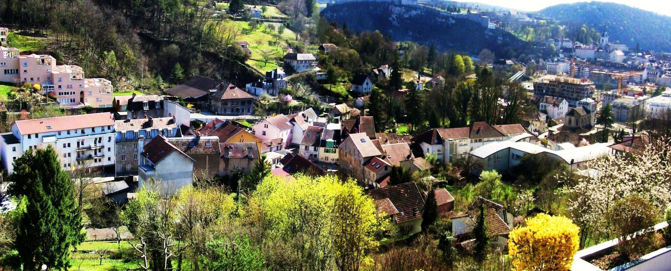 The sector of Bregille-village located in Besançon (Doubs, France).